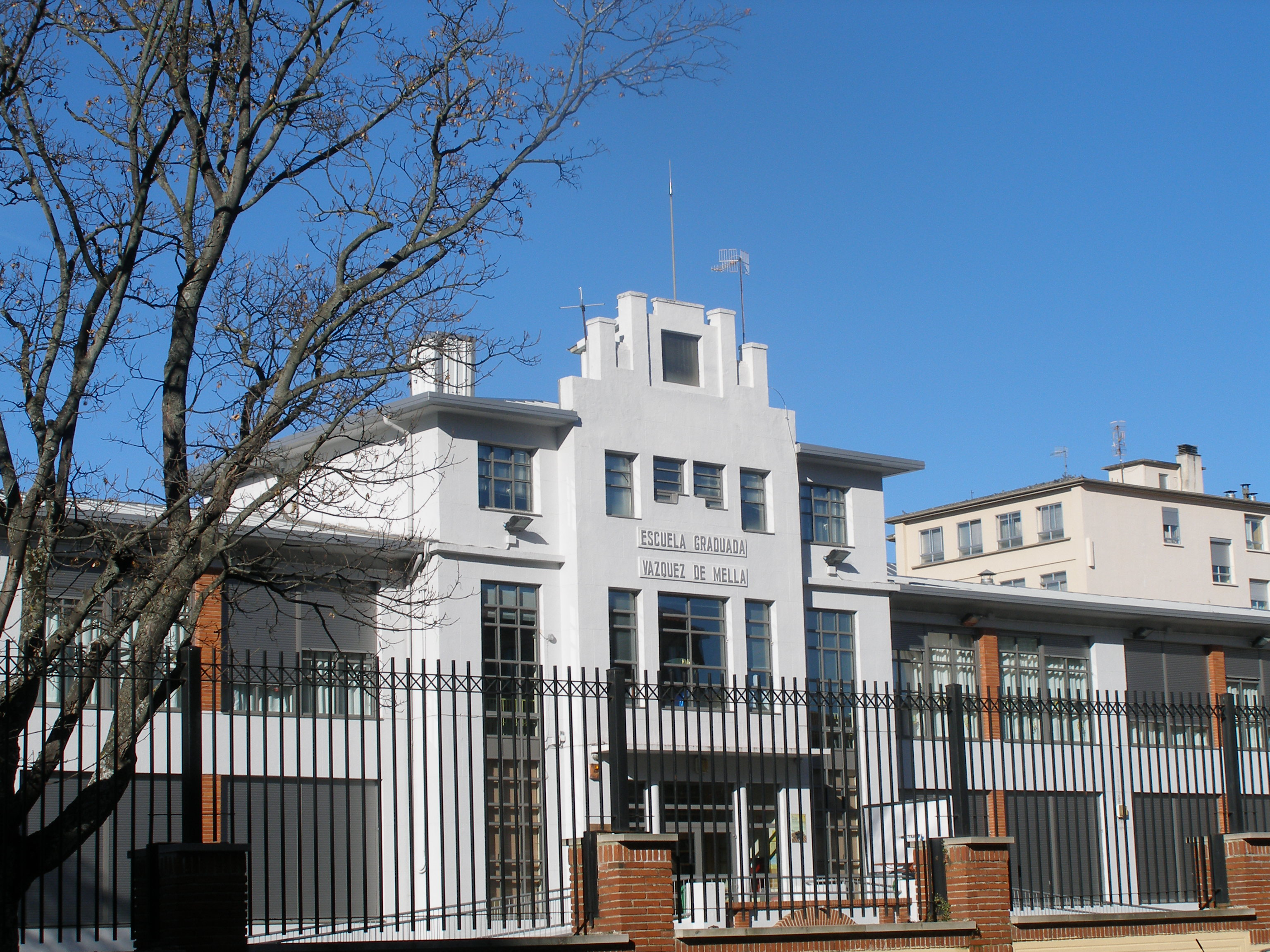 Vazquez de Mella school, in Pamplona.